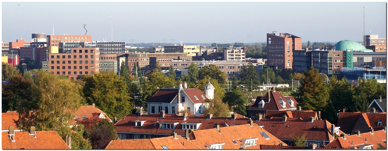 The skyline of Zwolle, Overijssel, Netherlands.